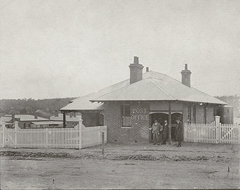 Newbridge Post Office Dated: No date Digital ID: 4346_a020_a020000115 Rights: We'd love to hear from you if you use our photos. Many other photos in our collection are available to view and browse on our website using Photo Investigator.